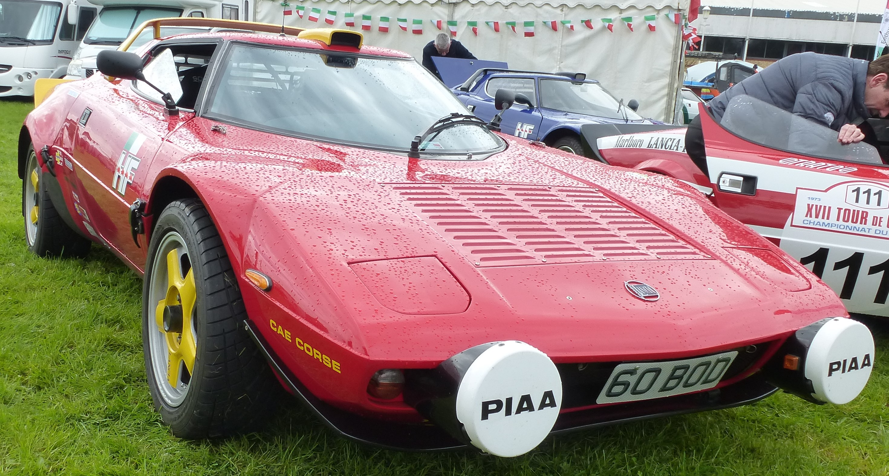 Carson Corse